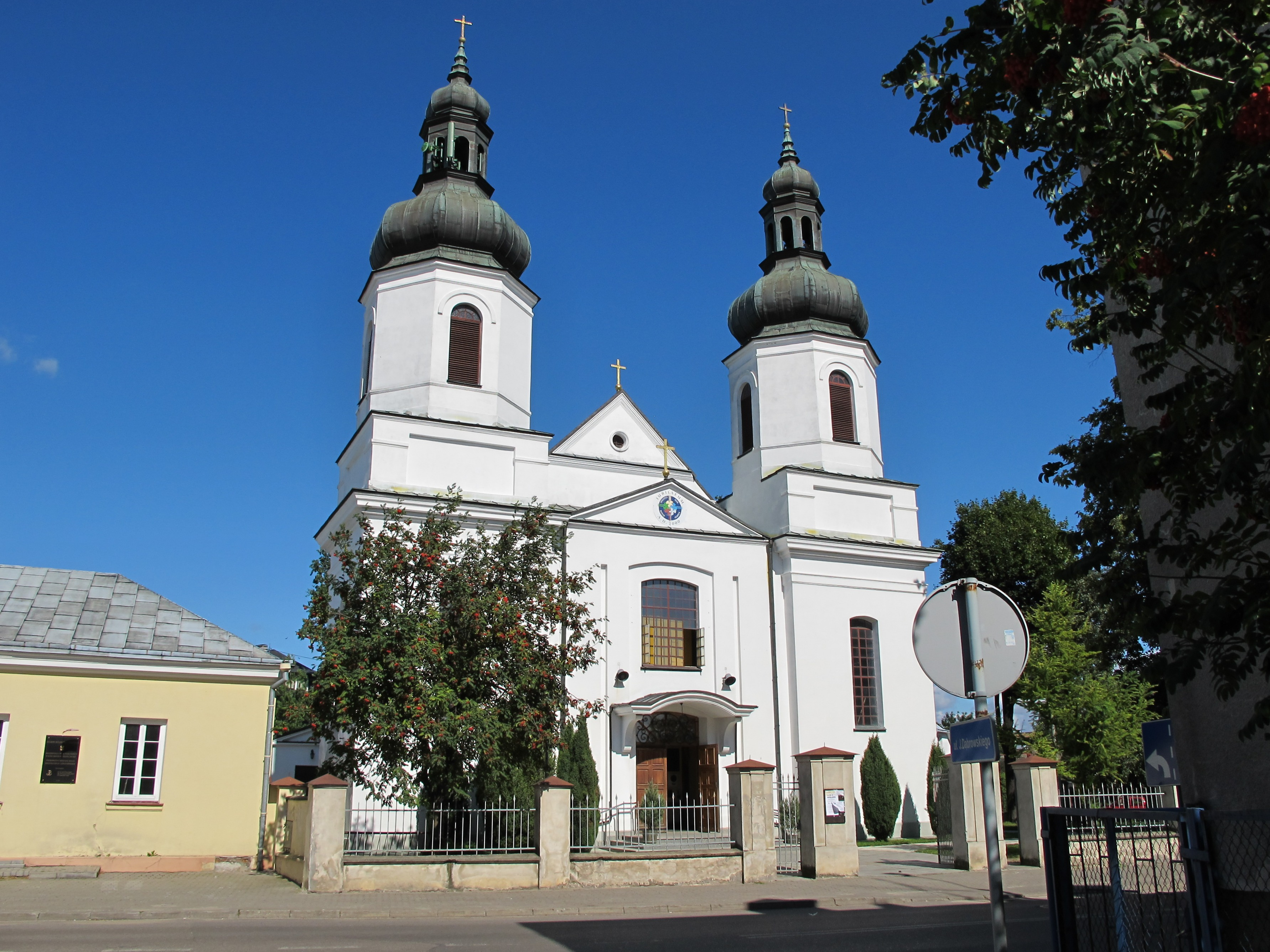 Our Lady of Mount Carmel church by Mickiewicza 61 street in Bielsk Podlaski, gmina Bielsk Podlaski, podlaskie, Poland.